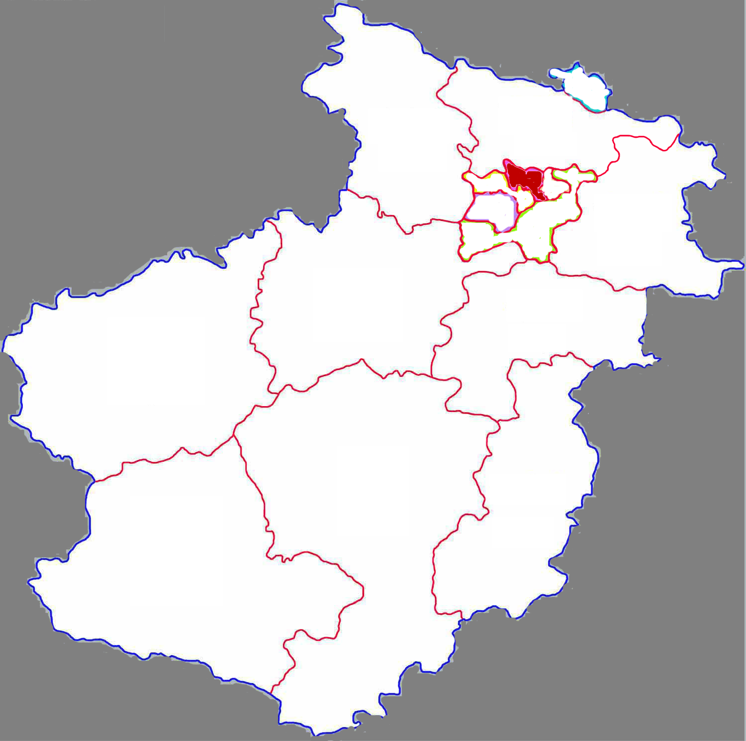 Location of Laocheng district in Luoyang city, China